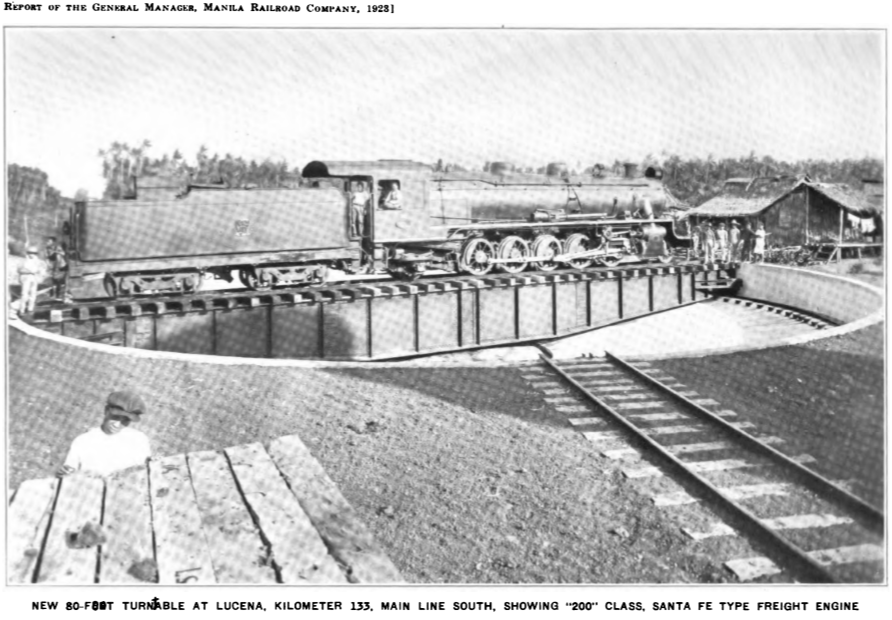 A Manila Railroad (MRR) 200 class freight locomotive on a turntable in Lucena, Quezon. This 2-10-2 "Santa Fe" was the largest steam locomotive in Philippine service, requiring new 80-foot (26 meter) turntables. These locomotives were not seen in service with MRR after World War II. Tagalog: Isang uring 200 na lokomotibang pang-kargamento sa isang paikutan ng tren sa Lucena, Quezon. Bilang isang 2-10-2 "Santa Fe", ito ang pinakamalaking lokomotibang de-uling sa Pilipinas at nangangailangan ng bagong 80 pulgada (26 metro) na paikutan. Hindi na sila nasilayan sa MRR pagkatapos ng Ika-2 Digmaang Pandaigdig.